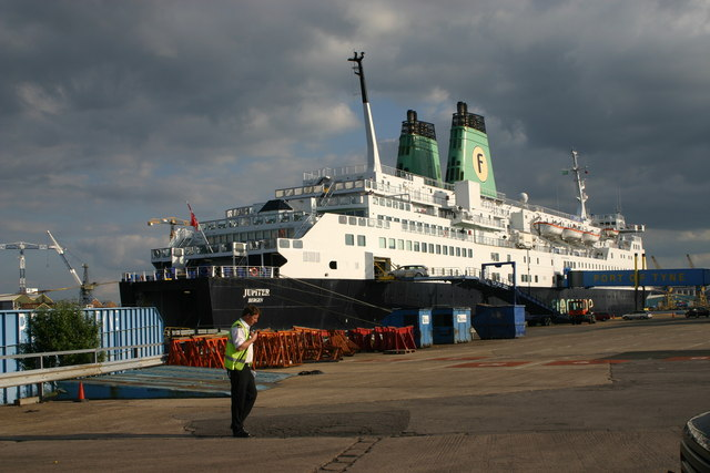 Road to Norway Dockside at Port of Tyne, about to board the "Jupiter" Fjord Line ferry to Stavanger.